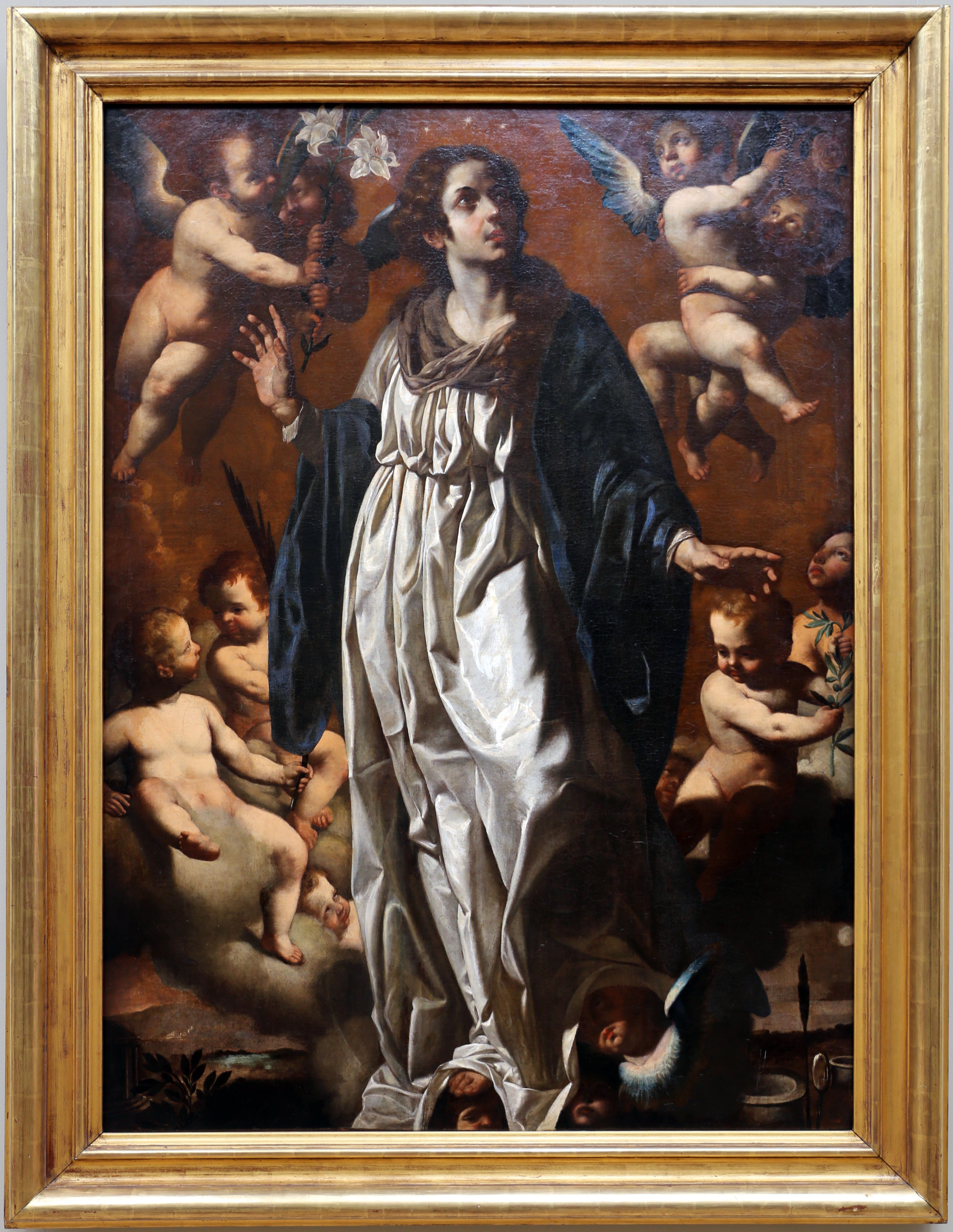 Paintings in the Palais des Beaux-Arts de Lille